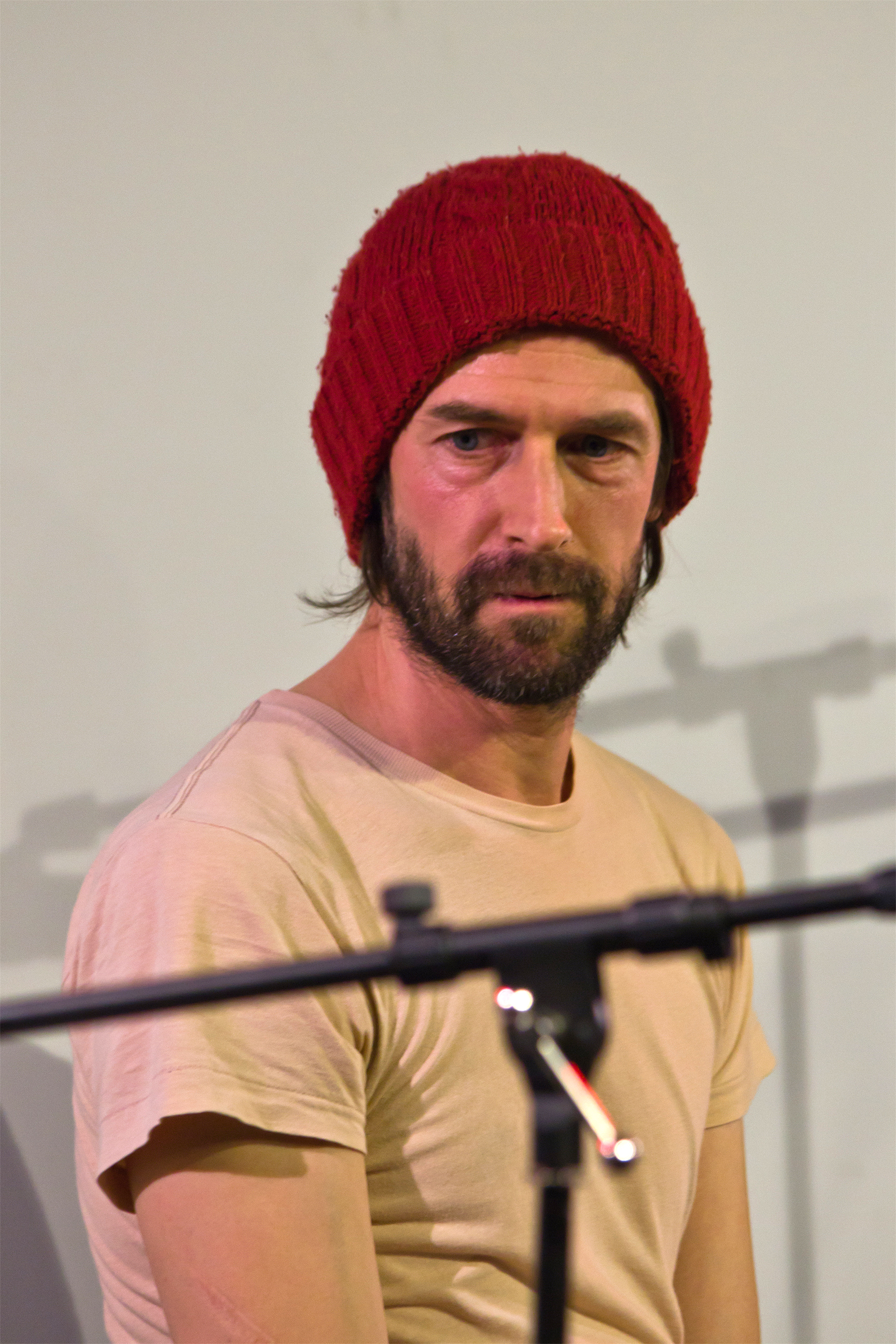 Indie band «Die Höchste Eisenbahn» from Berlin, Germany. This picture shows Max Schröder.